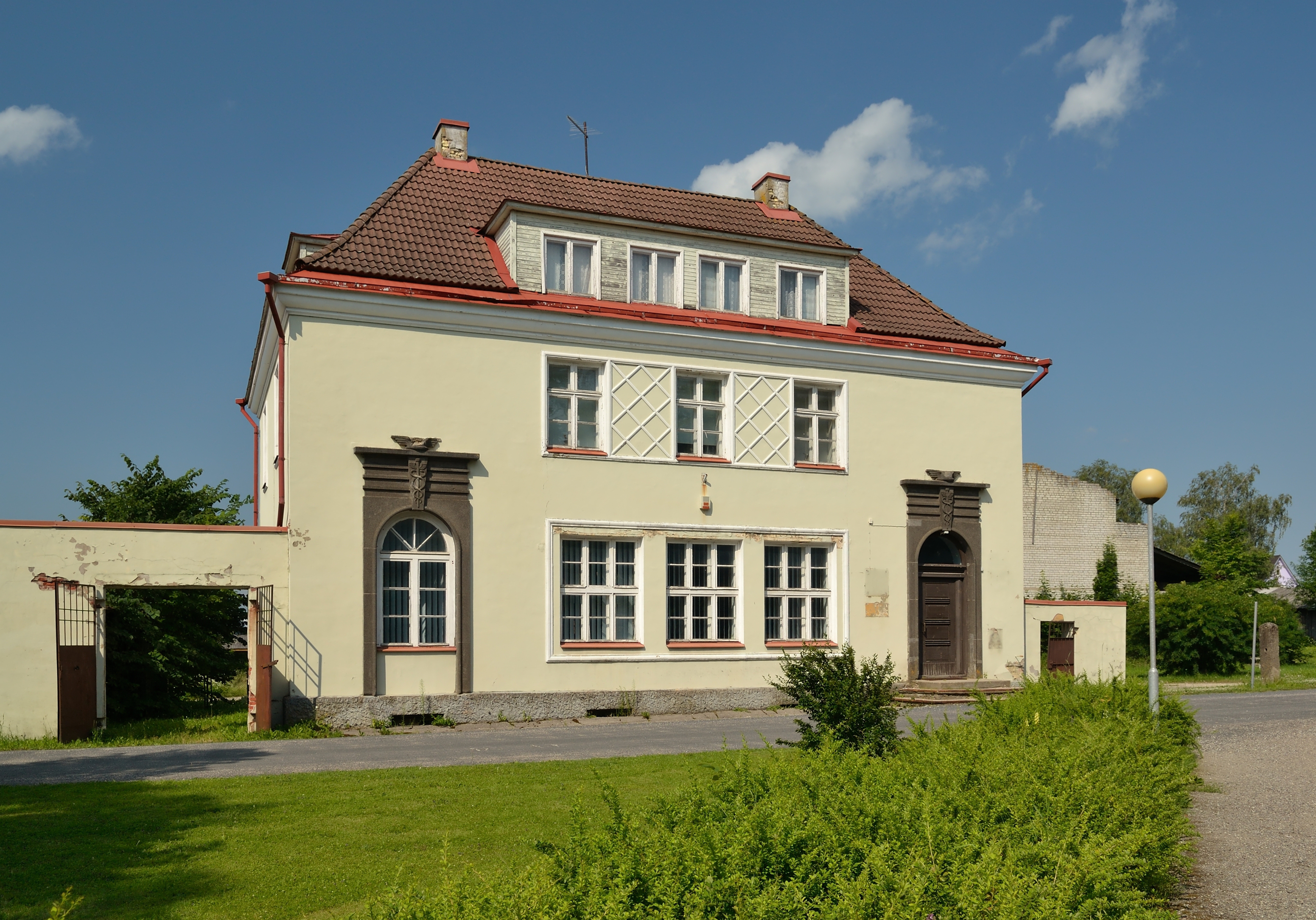 Abja-Paluoja post office, built in 1929